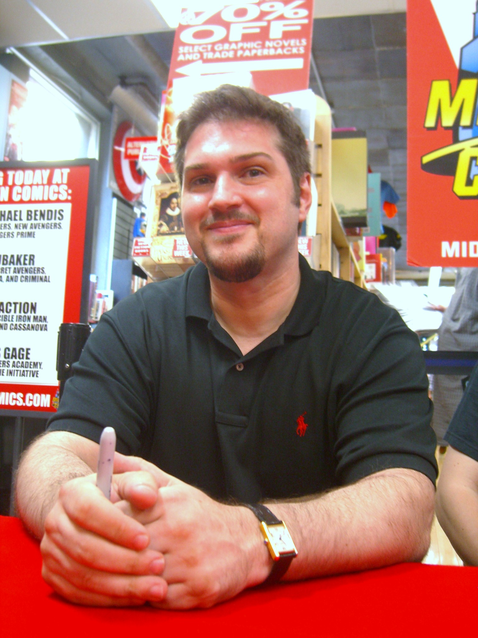 Writer Christos Gage at a book signing at Midtown Comics Times Square in Manhattan, June 21, 2010. Photo by Luigi Novi. This photo may be used and modified, for any purpose, only if the photographer is visibly credited in each instance in which it is used. (See licensing information below.) For more information on my photos, you can contact me here.